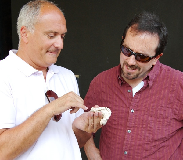 Ambassador John Bass and David Lordkipanidze, Director of the Georgian National Museum, study a hominid humerus found at the research site at Dmanisi.